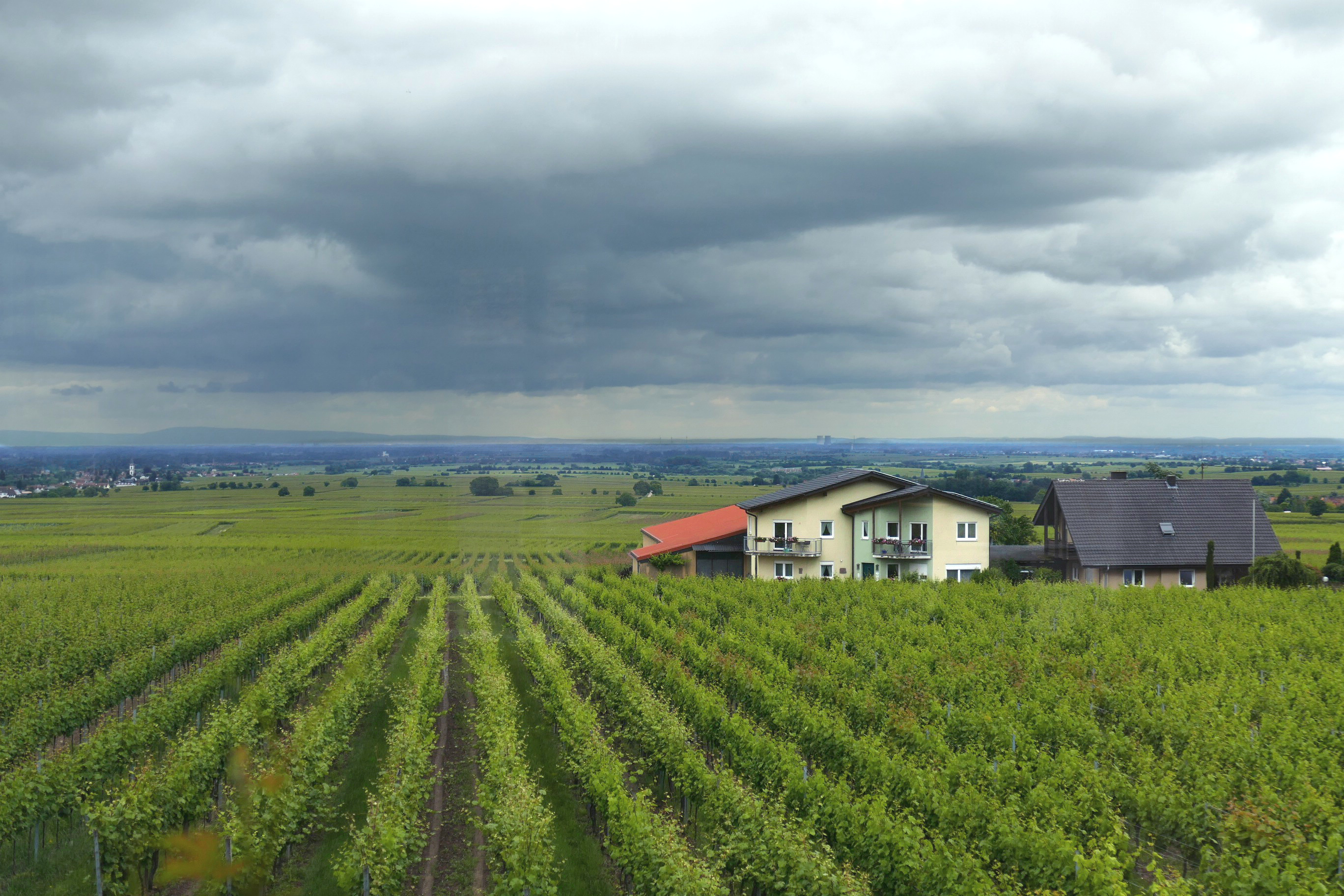 View from the restaurant "Das Esszimmer im Ritterhof" - Burrweiler, 19.6.2016